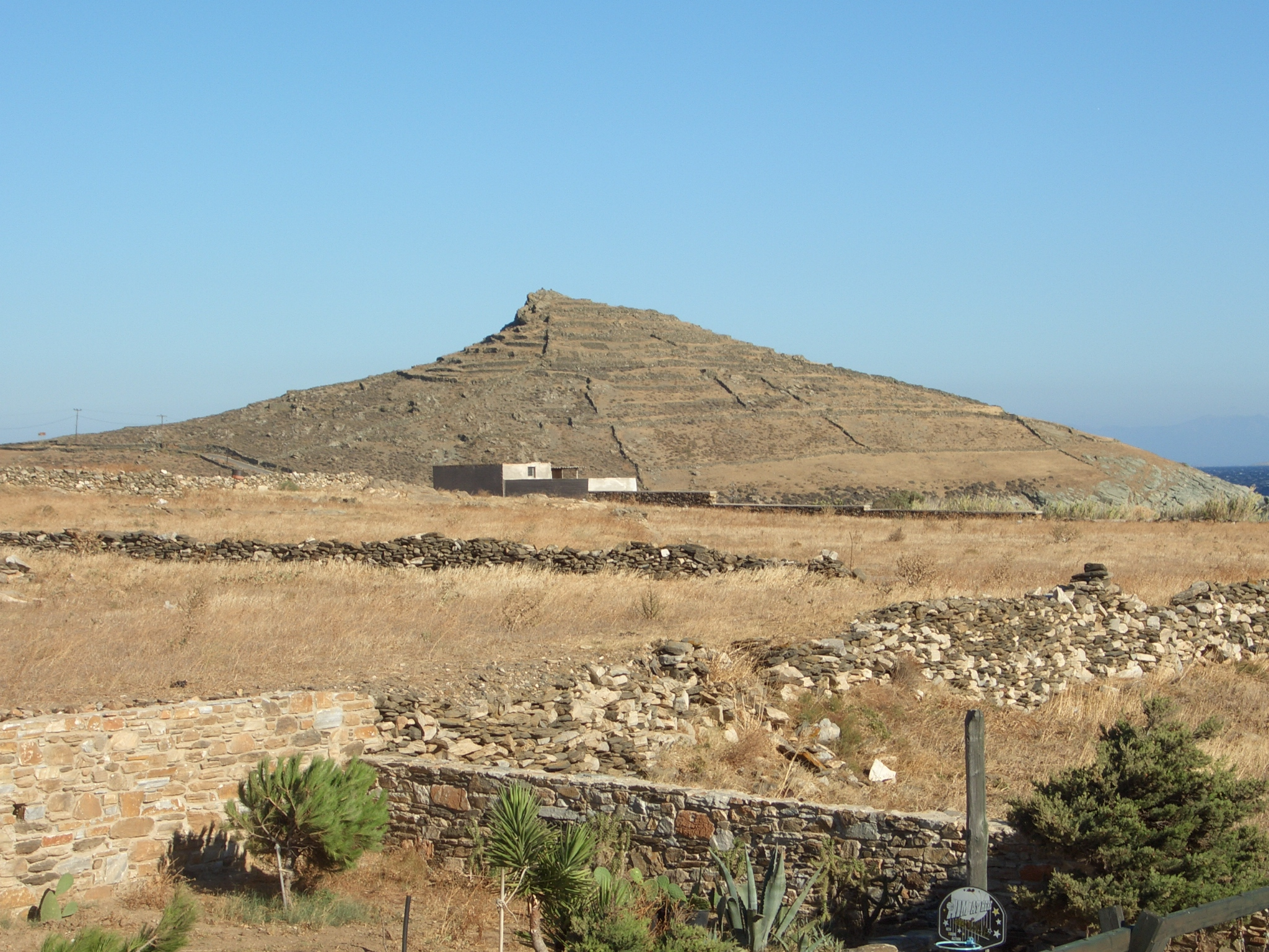 Picture of Vrekastro